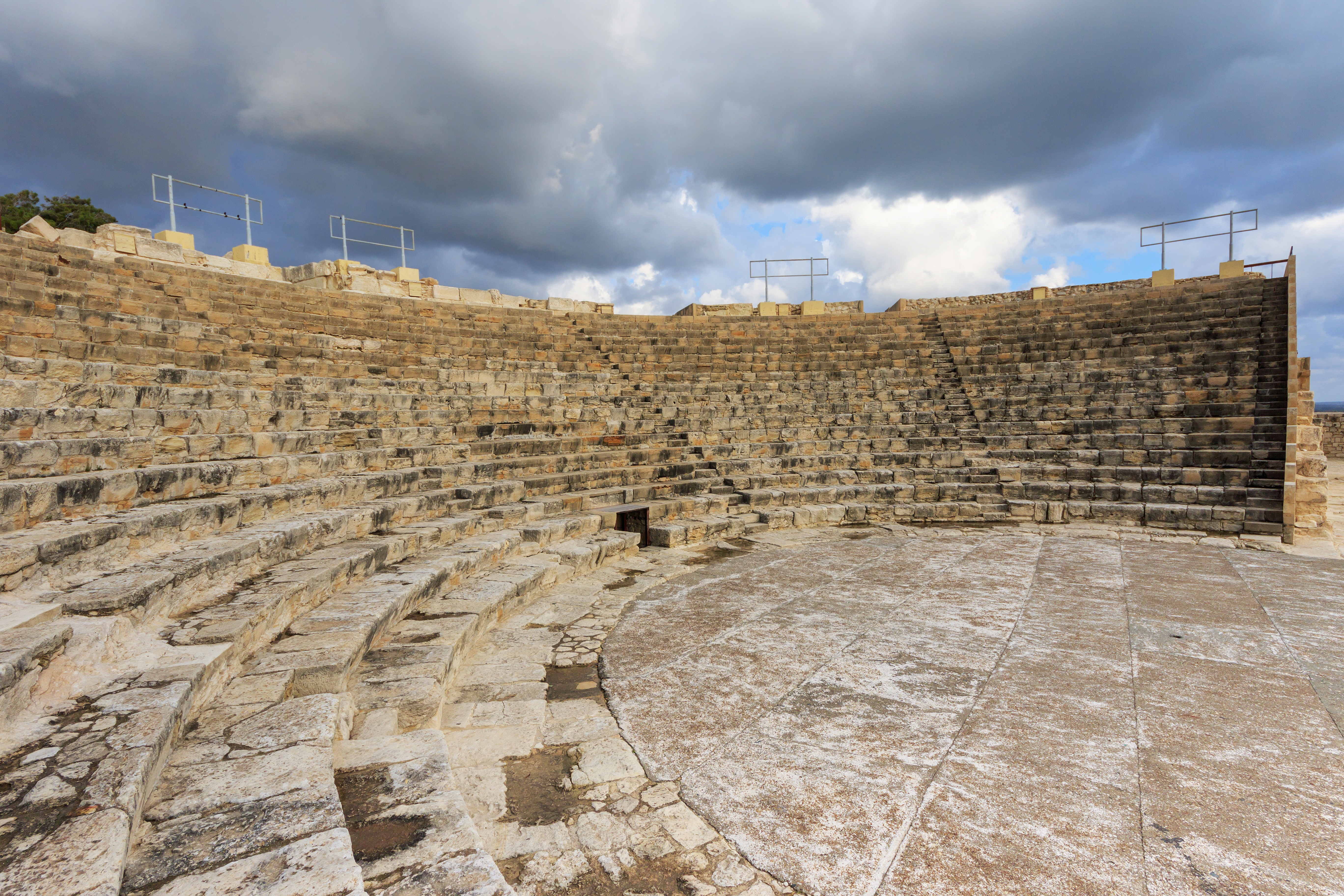 Ancient town of Kourion near Limassol, Cyprus. The Theater of Kourion.